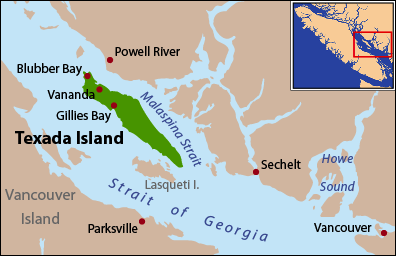 This is a locator map of Texada Island. I, Pfly, made it with ArcGIS, Adobe Illustrator, and Adobe Photoshop. The coastline data is from the Digital Chart of the World.